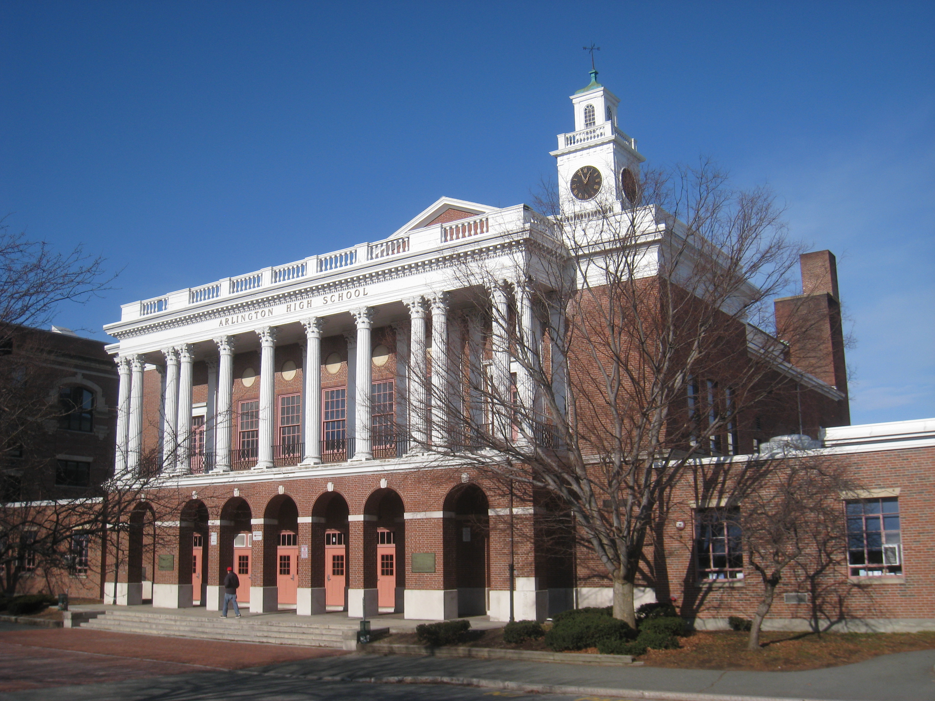 Arlington High School, Arlington, Massachusetts, USA.